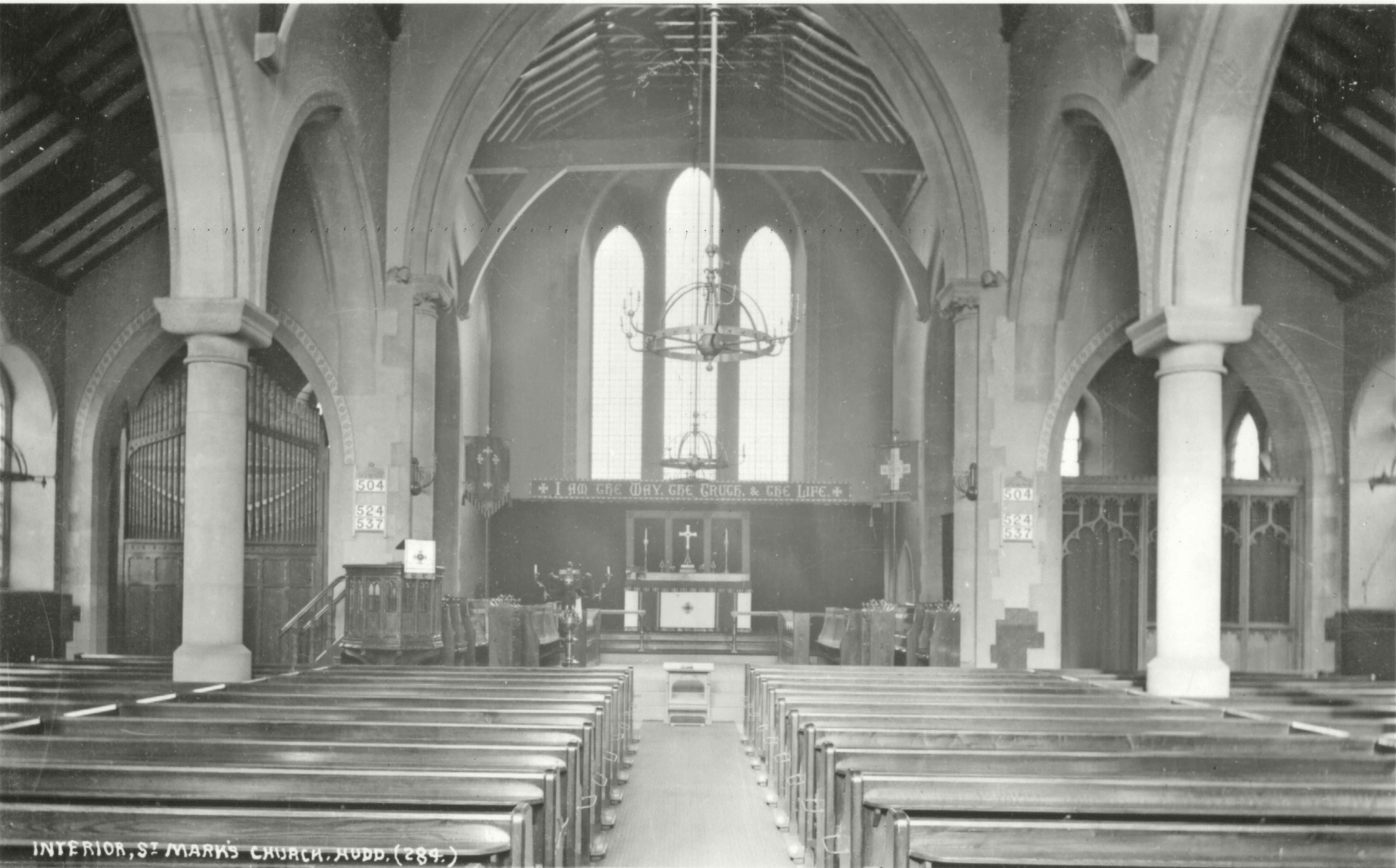 Archive image of interior of Church of St Mark, Old Leeds Road, Huddersfield, West Yorkshire, England. Built 1887, designed by architect William Swinden Barber. Note on date of image: Although Kirklees Image Archive dates this photo within the decade 1910-1919, it is far more likely to be dated before 1907, when the churchwardens resigned and the church began to be neglected.